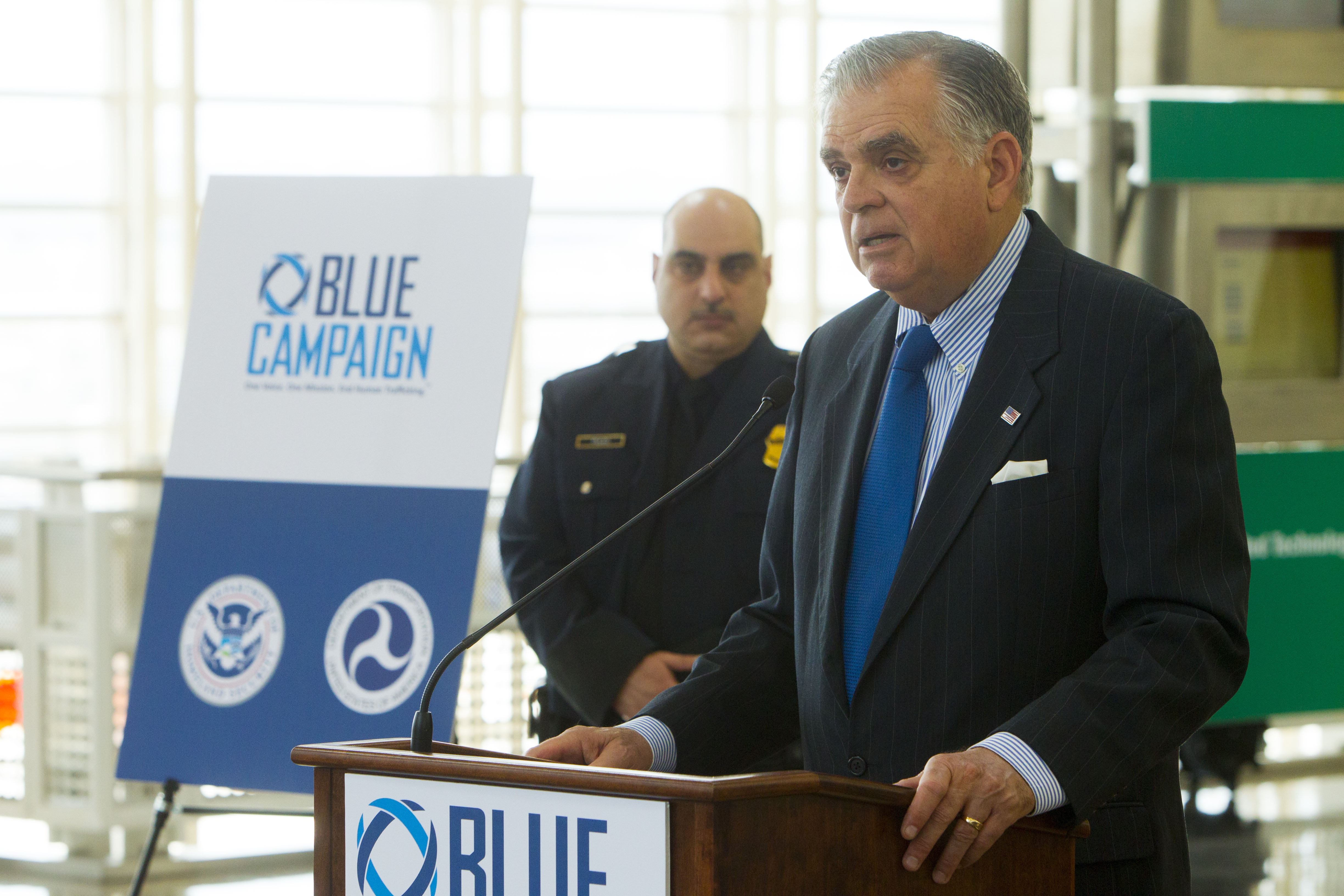 WASHINGTON - On Wednesday, June 6, U.S. Transportation Secretary Ray LaHood (Speaker), U.S. Customs and Border Protection (CBP) Acting Deputy Commissioner Kevin McAleenan, Delta Chief Executive Officer Richard Anderson and JetBlue Airways Senior Vice President for Government Affairs and Associate General Counsel Robert Land announced the implementation of new partnerships to combat human trafficking as part of the Department of Homeland Security’s Blue Campaign, CBP and the Department of Transportation. Photo by James Tourtellotte